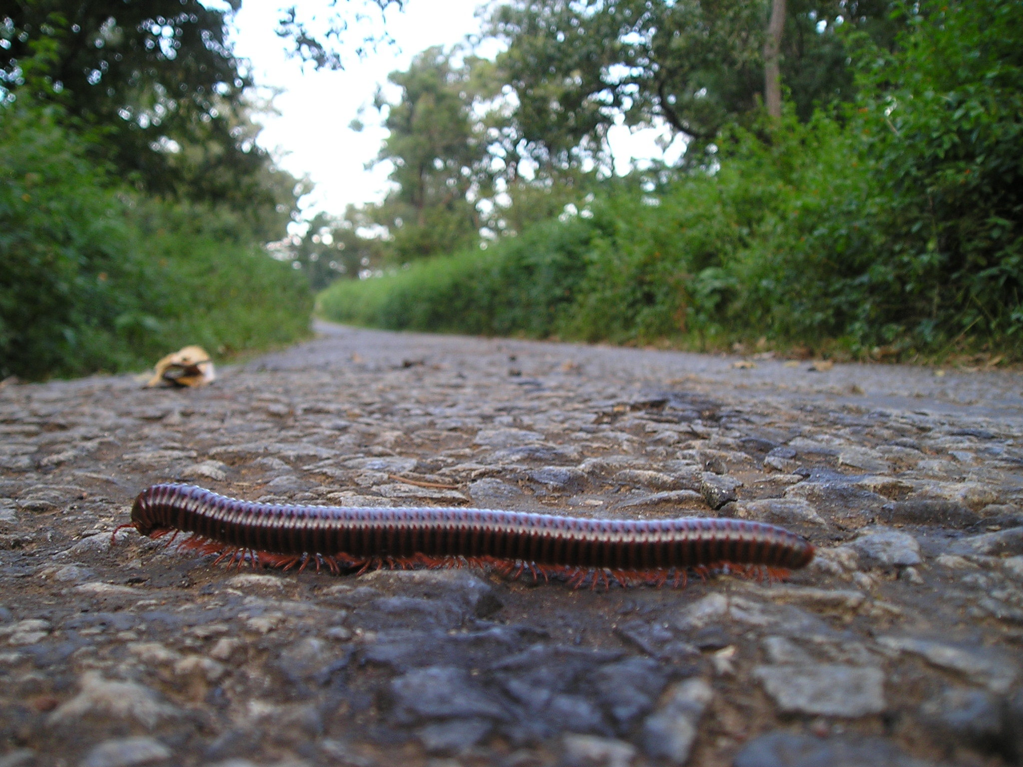 A Millipede from BR Hills